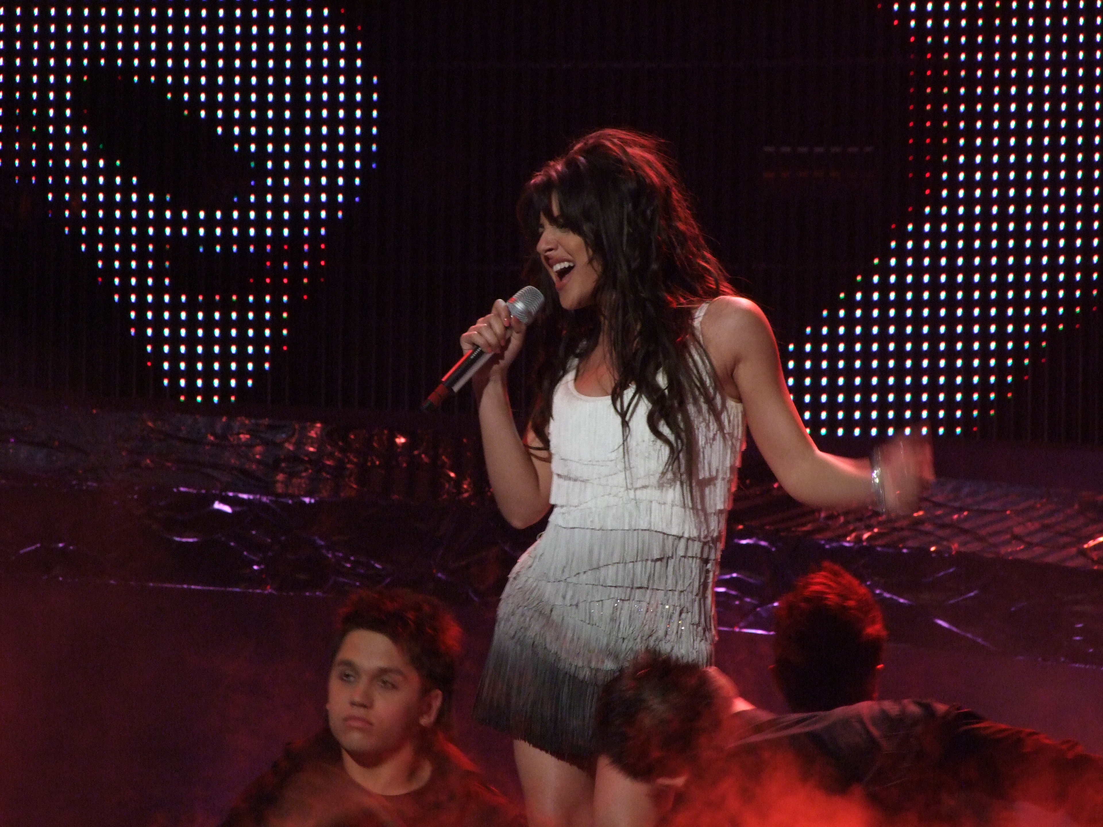 Sirusho, representative of Armenia in Eurovision Song Contest 2008. Taken in Belgrade, 2008. Personality rights warningAlthough this work is freely licensed or in the public domain, the person(s) shown may have rights that legally restrict certain re-uses unless those depicted consent to such uses. In these cases, a model release or other evidence of consent could protect you from infringement claims.